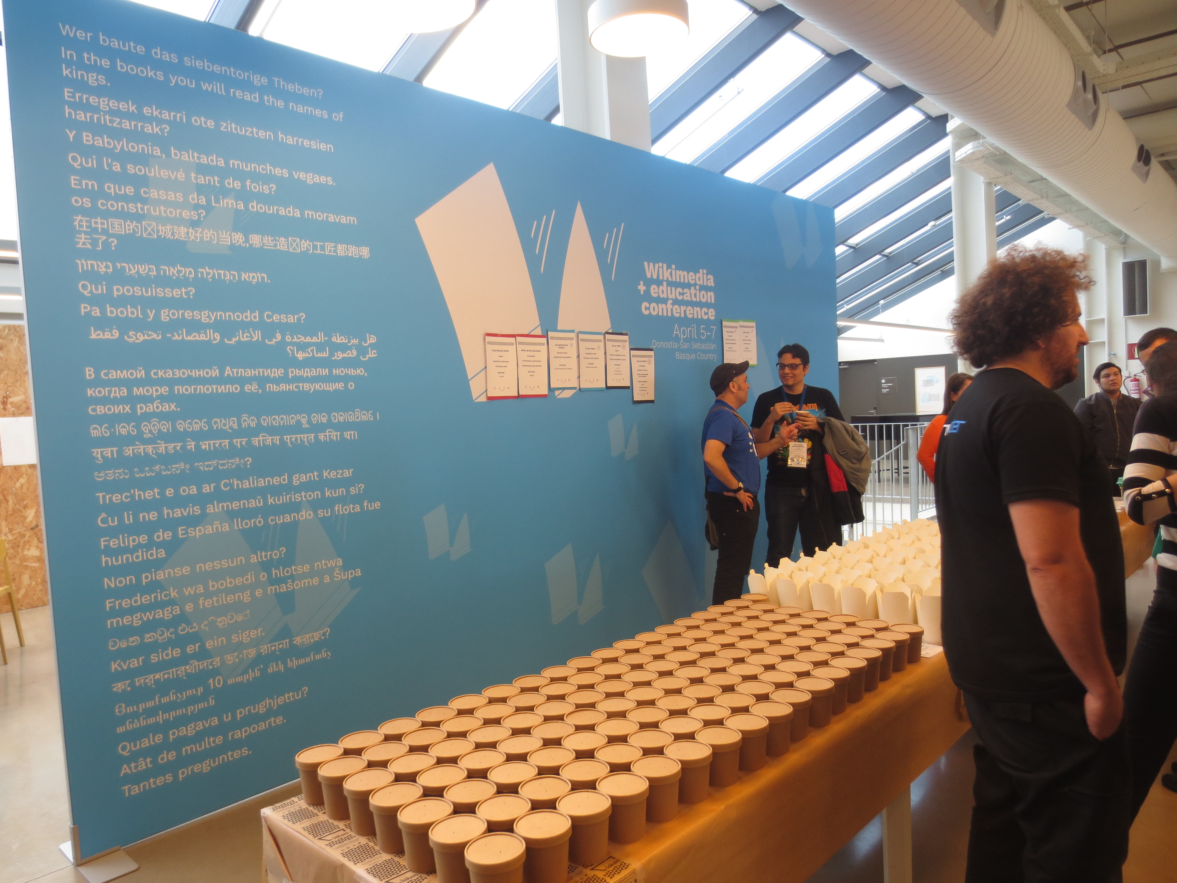 Bertolt Brecht - 'Questions From A Worker who Reads' poem translated into 28 languages